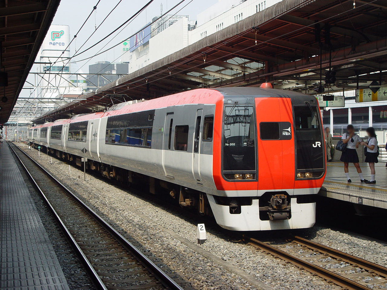 JR East 253 series 6-car EMU set Ne-202 at Ikebukuro Station on the Narita Express 19 service to Narita Airport